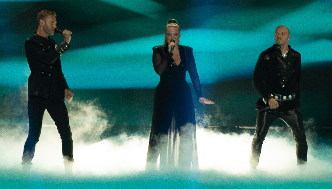 At the 2019 Eurovision Song Contest Semi-final 2 dress rehearsal